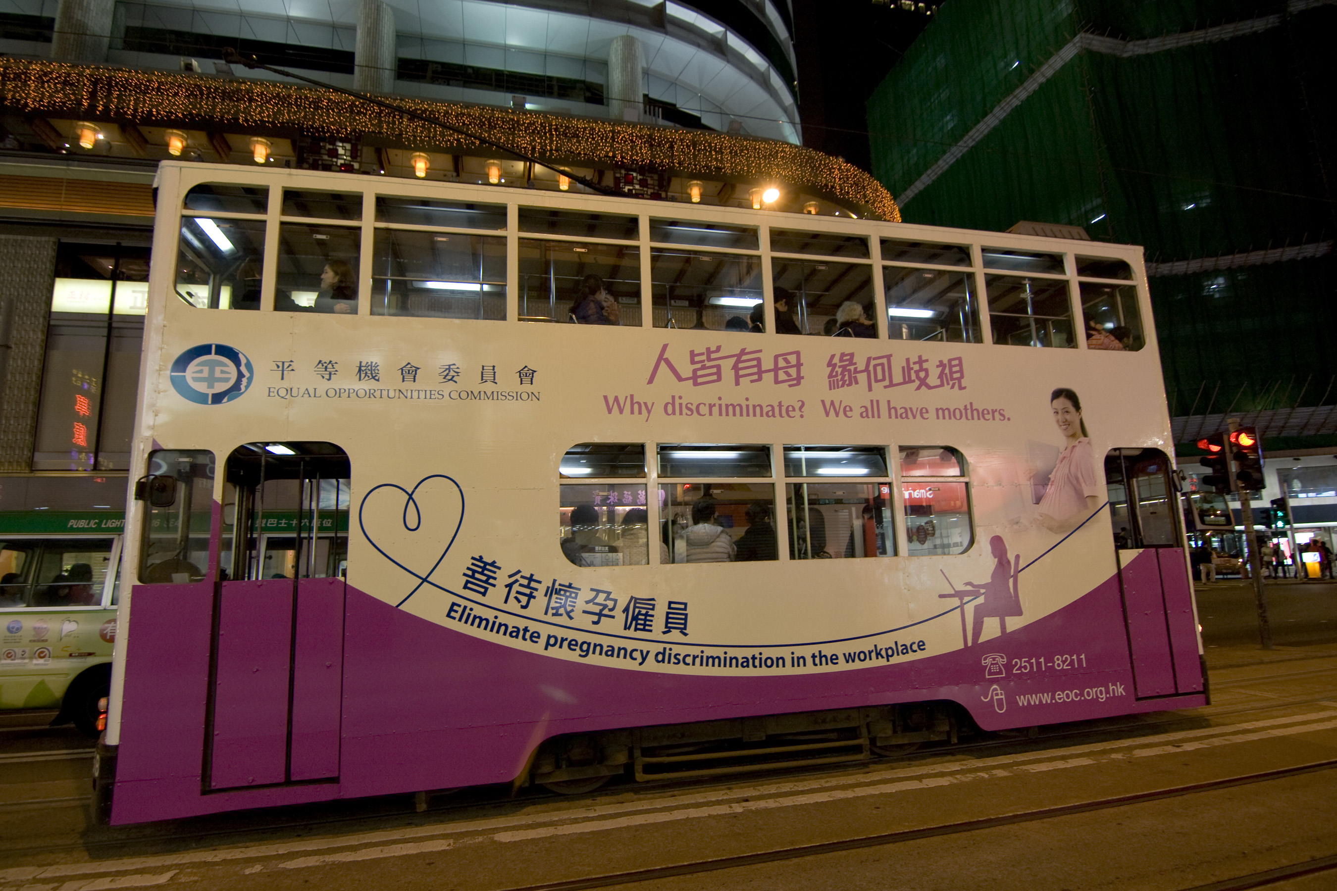 Tram, Wan Chai, Hong Kong